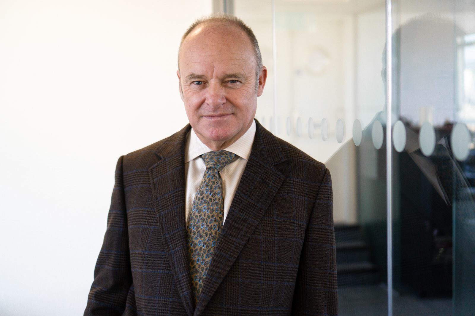 Corporate headshot of Paul S Walsh, created by Steve Lawton Photography (